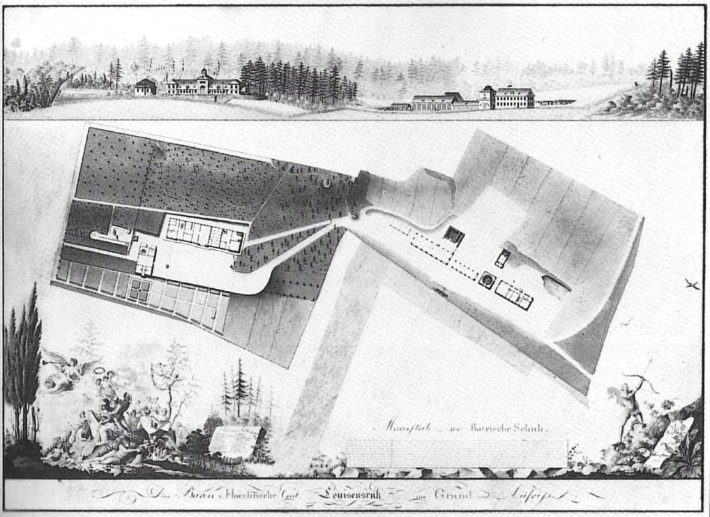 Floor plan of the castle and Manufaktur Luisenruh of G. Haevel 1813